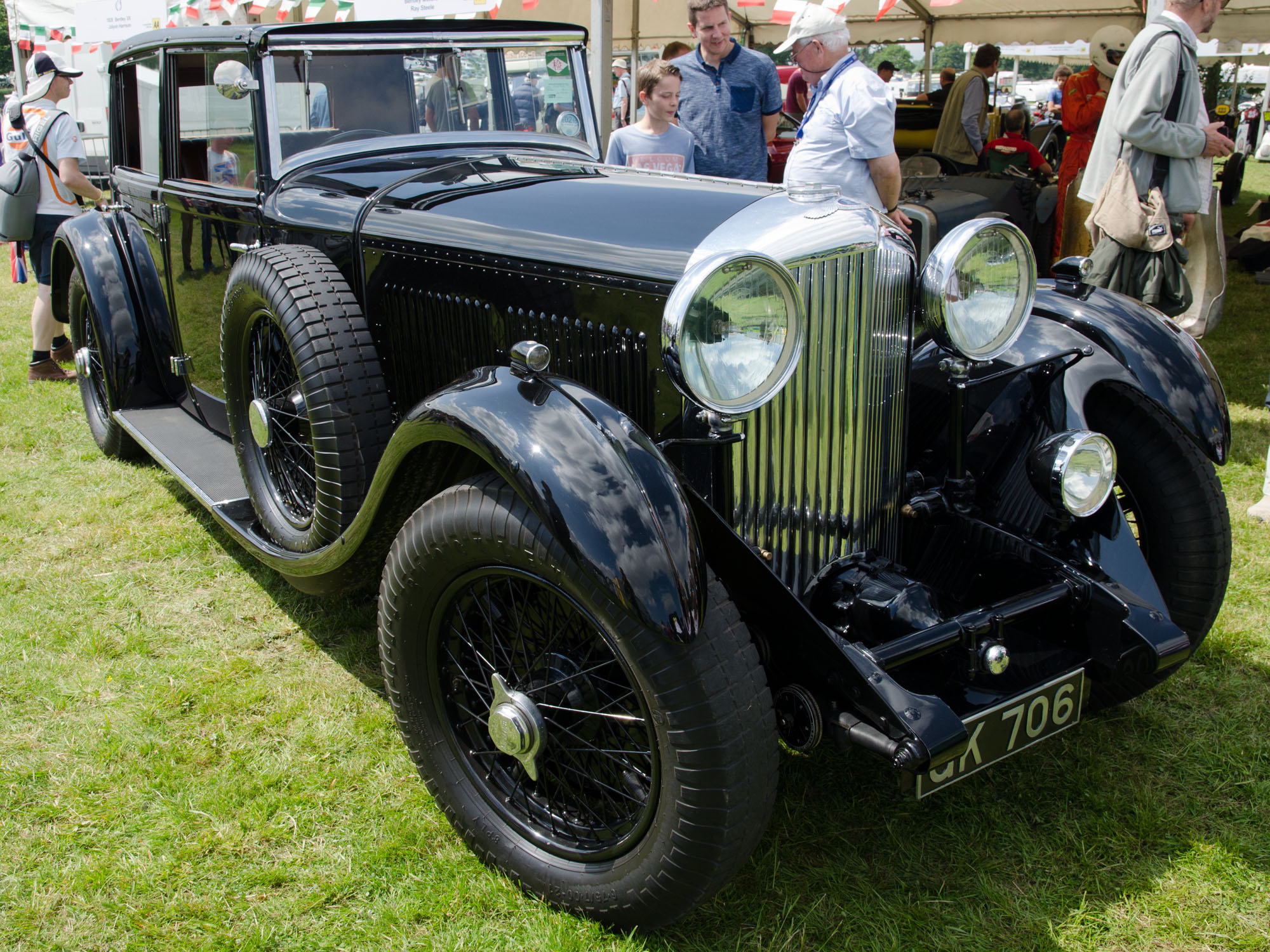 Bentley 8-Litre Weymann saloon by Mulliner 1930, WO's own car. Cholmondeley Pageant of Power 14 June 2014 Delivered October 1930, original body: Weymann saloon by H J Mulliner Chassis YF5002 12' wheelbase Engine YF5002 Reg GK 706 Source of data—Vintage Bentleys "This car was the second 8-litre made and for a long time it was W O Bentley's personal car." [1]